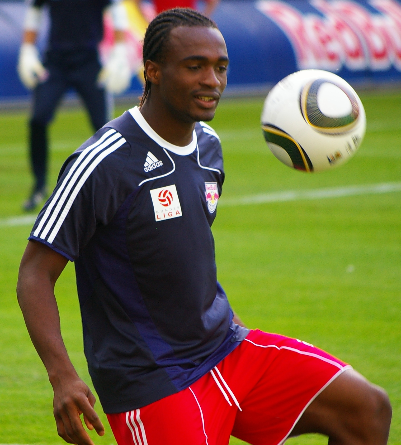 Louis Mahop striker FC Salzburg